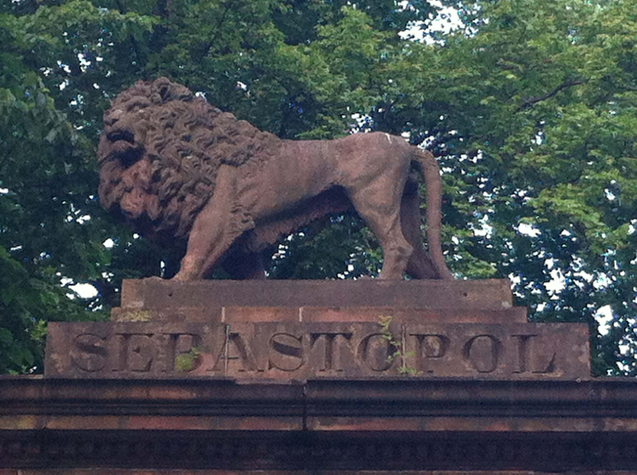 Welsford-Parker Monument, Crimean War, Halifax, Nova Scotia, Canada